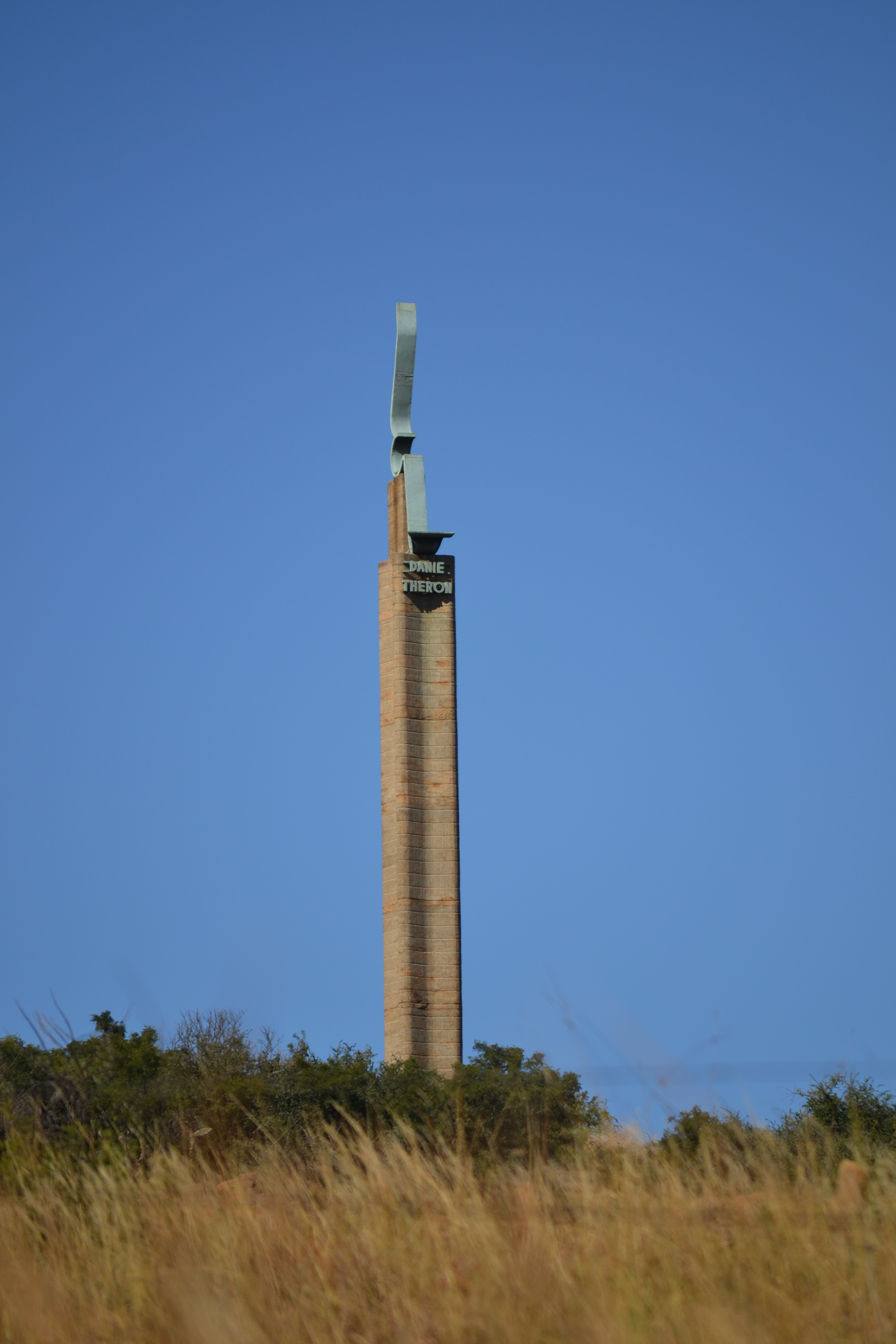 Danie Theron memorial is some 8 km west of the town of Fochville on the N12 to Potchefstroom North West South Africa This media shows a South African Protected Site with SAHRA file reference New.